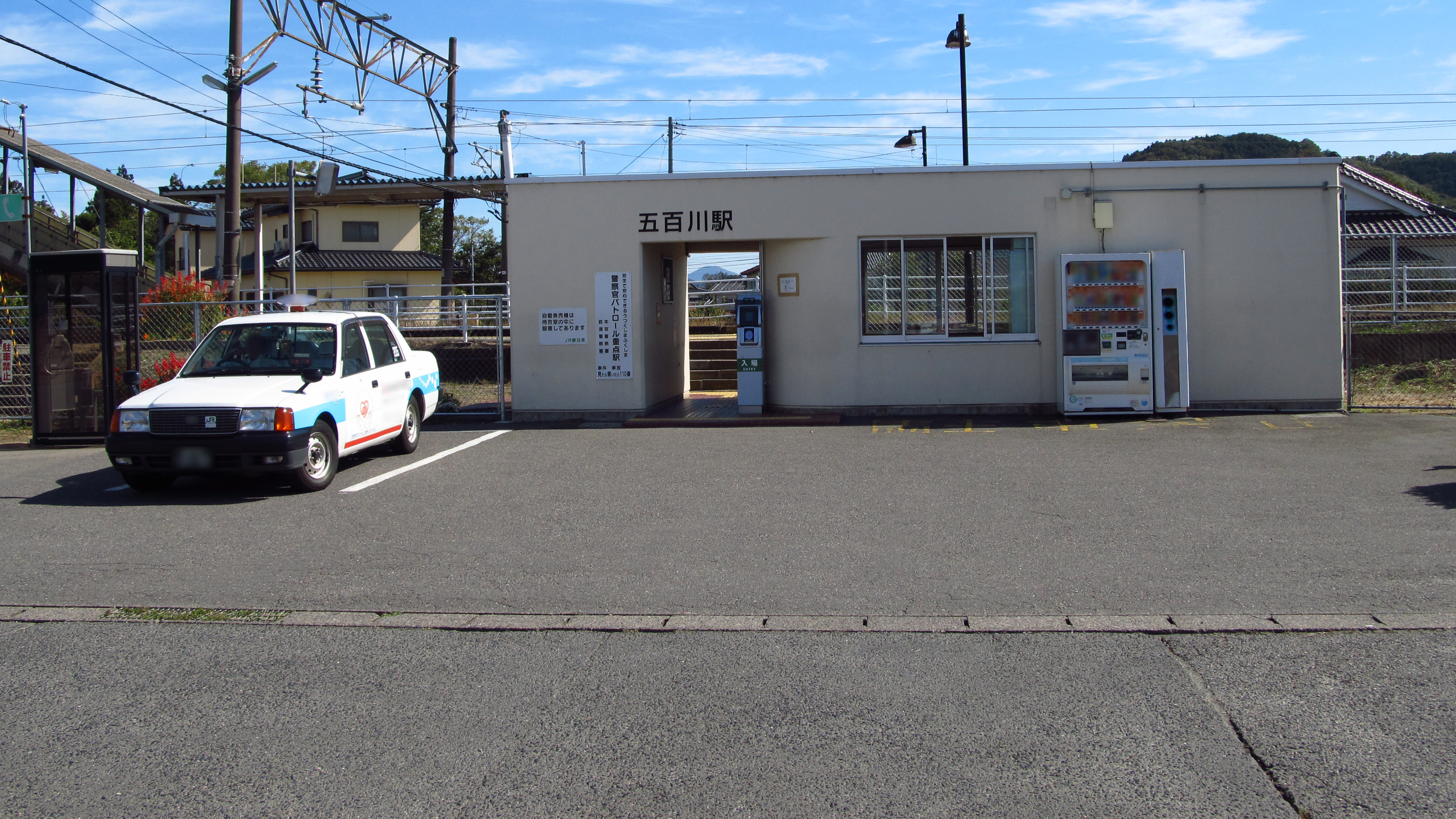 The building of Gohyakugawa Station on the Tōhoku Main Line in Motomiya city, Fukushima prefecture, Japan